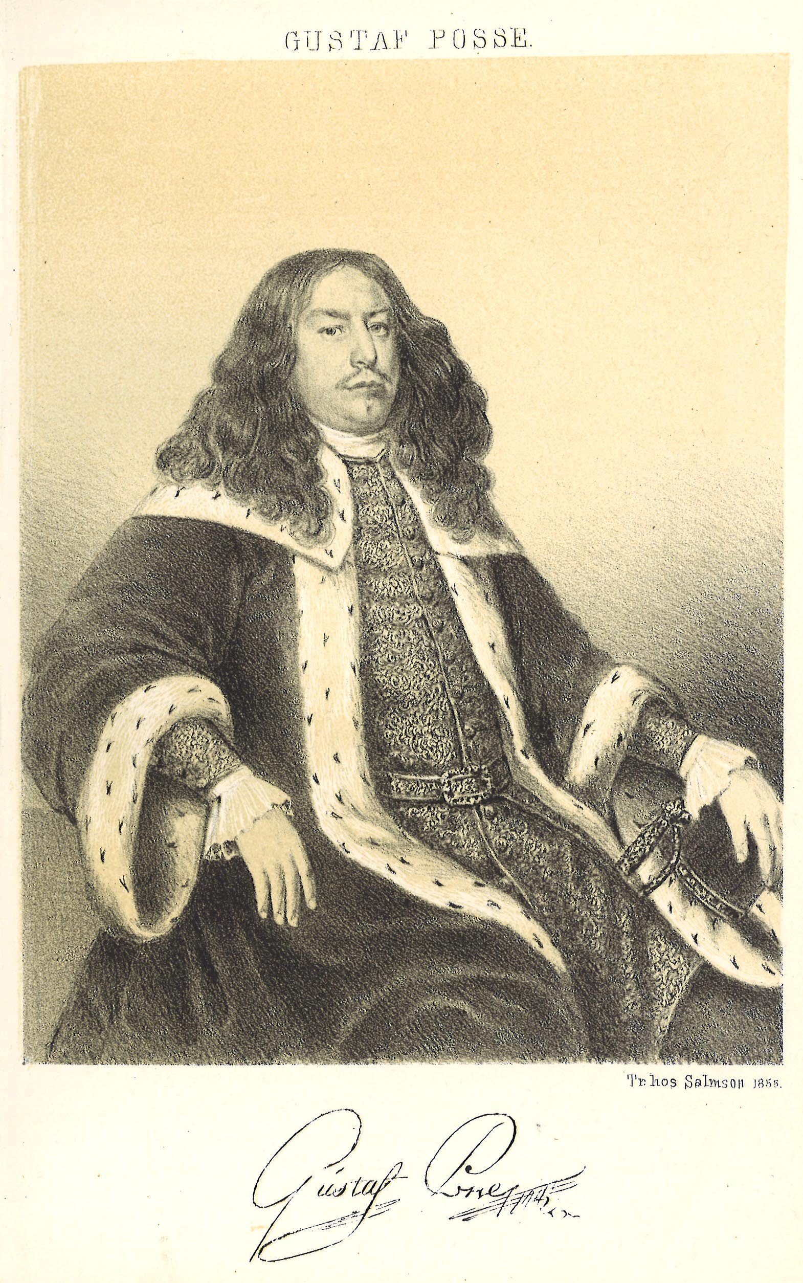 Gustaf Knutsson Posse (1626-1676), Swedish baron, courtier, senator and "lantmarskalk" (chairman of the estate of nobility).